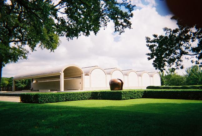 The Kimbell Art Museum in Fort Worth, TX from southwest of the museum.